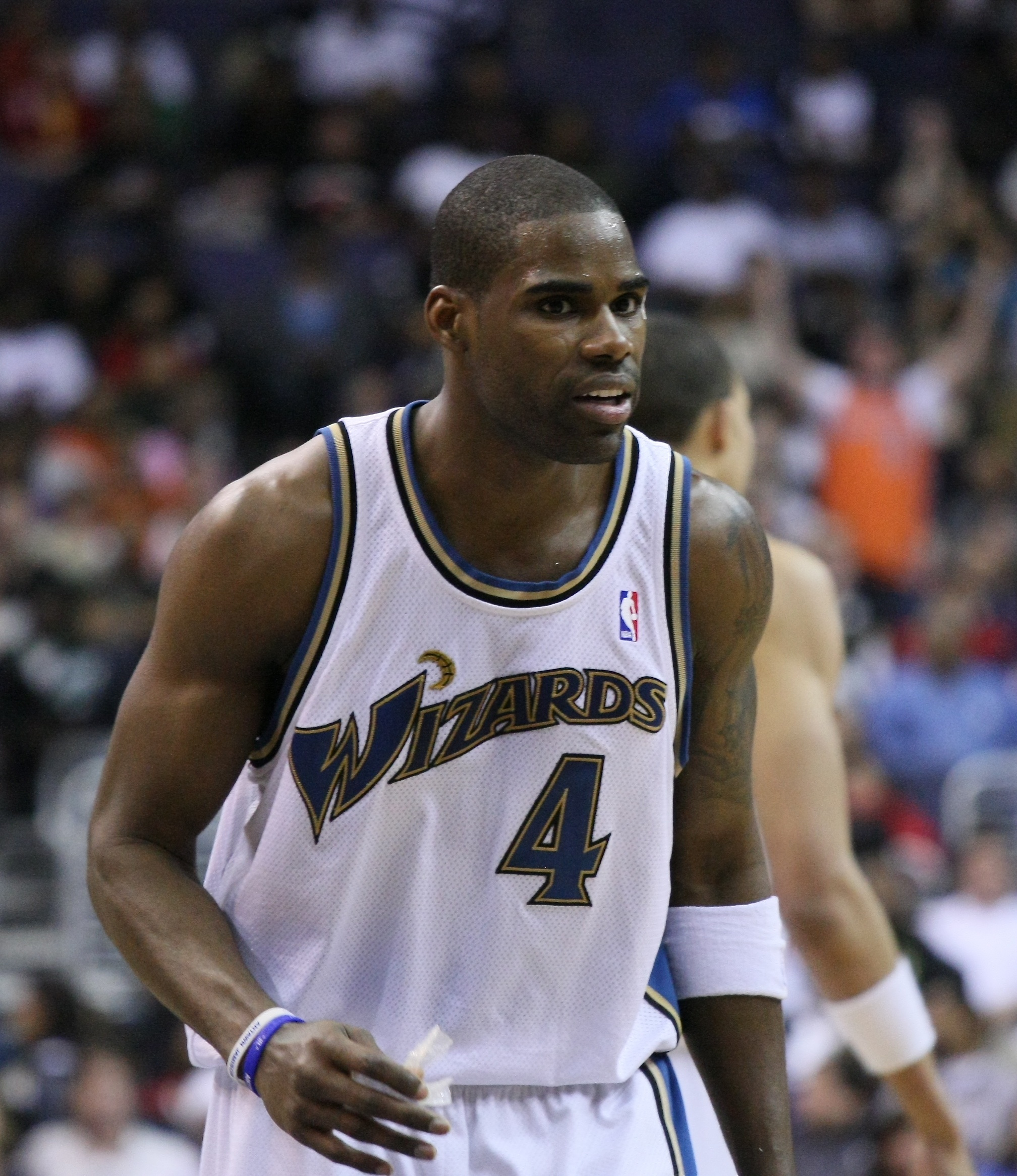 Antawn Jamison, Cleveland Cavaliers